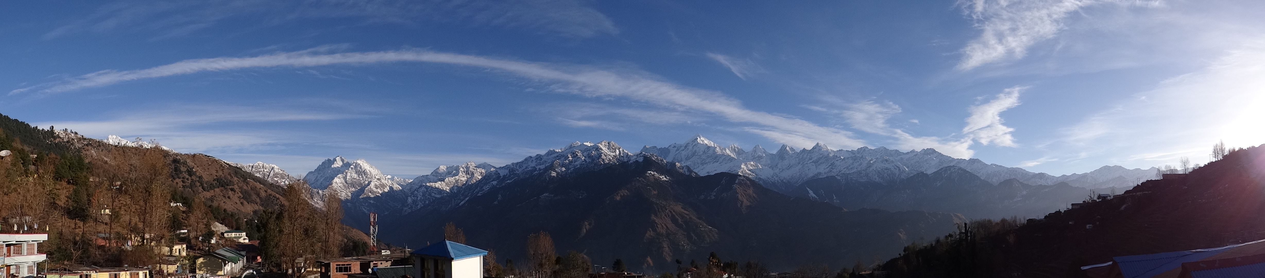 panoramic view of peaks (including Paanchachuli peaks)from hotel room in munsiyari.